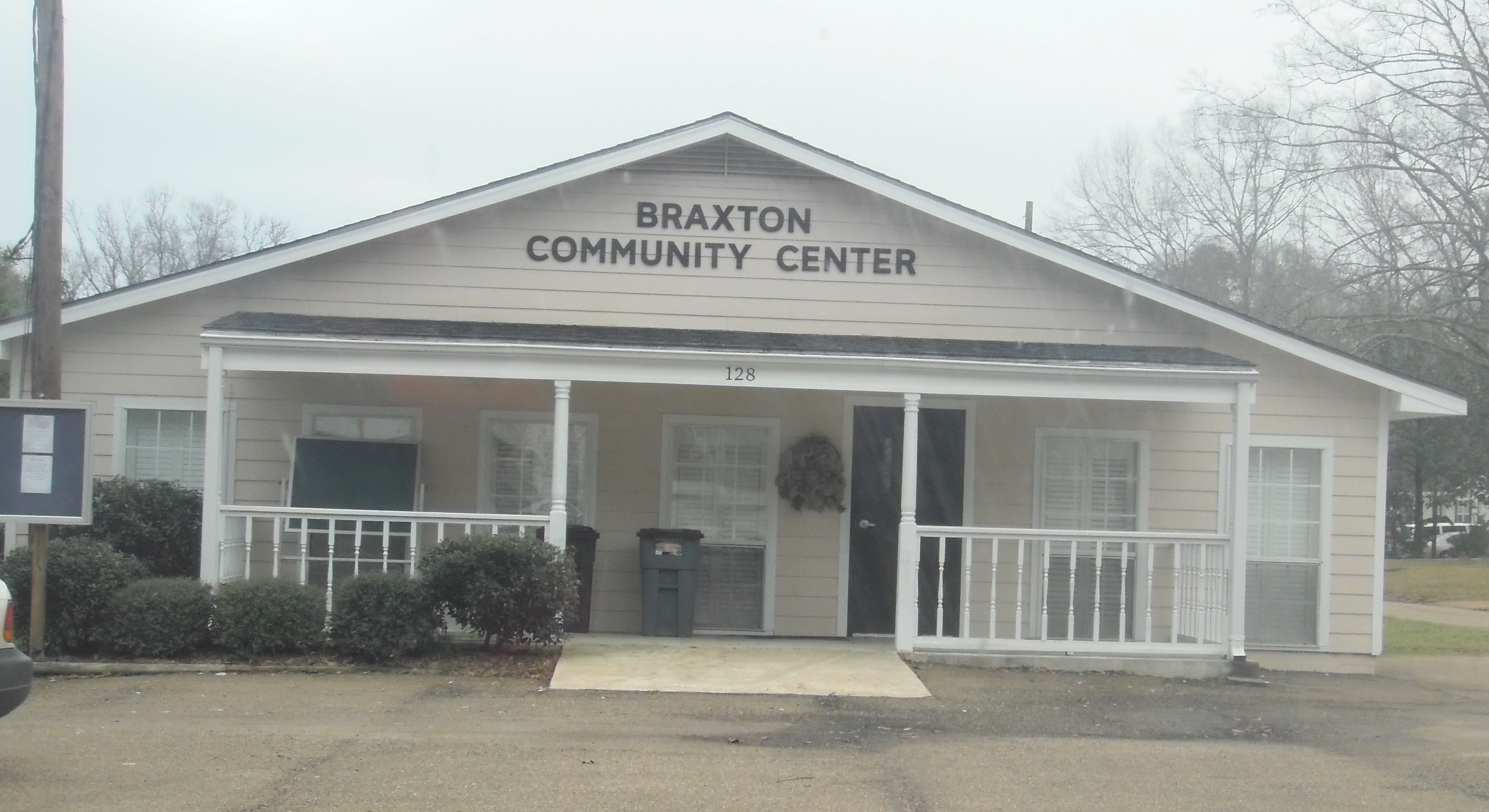 This is a photo of the Braxton Community Center